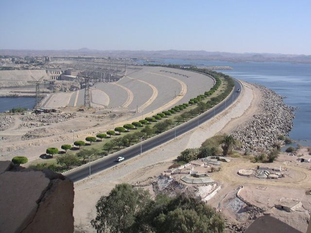 Panoramic view of the Aswan High Dam in Egypt, taken from atop the Soviet-Egyptian Friendship Monument.